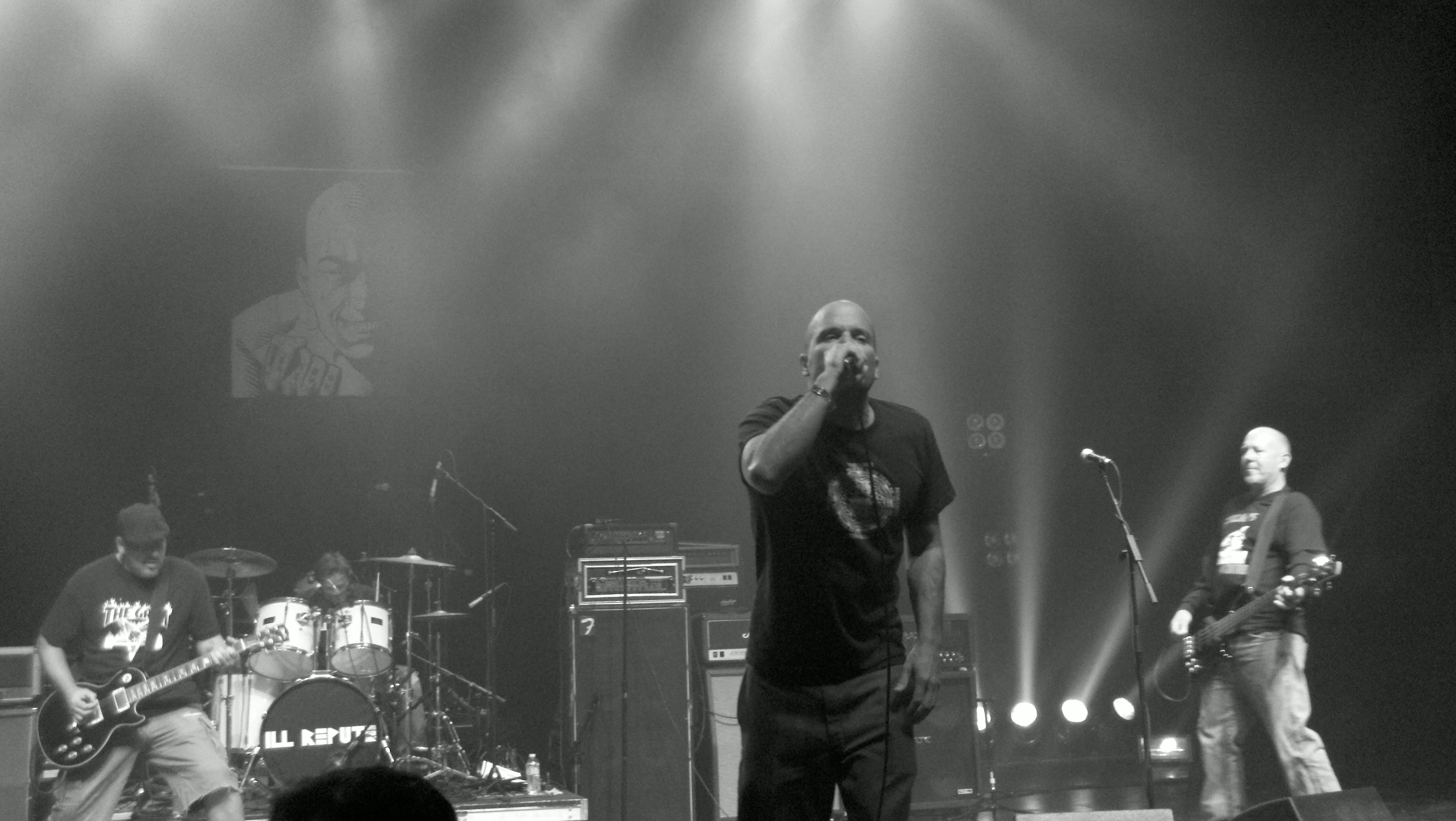 Ill Repute performing December 18, 2011 at the Santa Monica Civic Auditorium in Santa Monica, California as part of the GV30 event. Left to right: guitarist Tony Cortez, drummer Chuck Shultz, singer John Phaneuf, and bassist Jimmy Callahan.